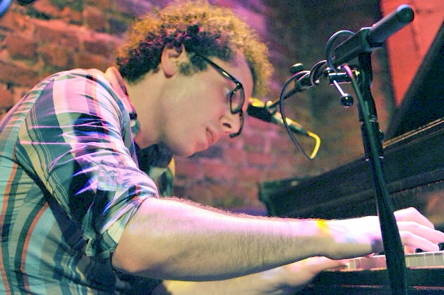 Ian Axel playing the piano at Rockwood Music Hall